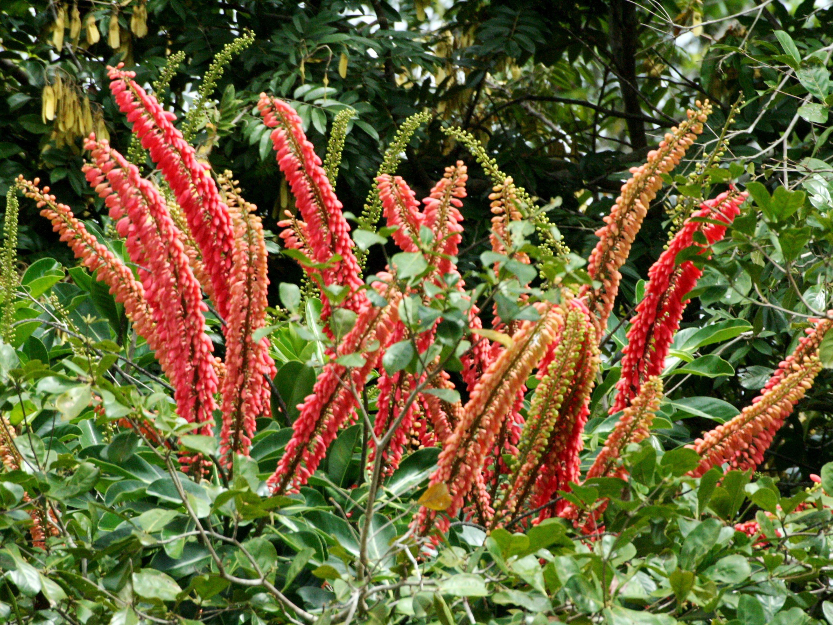 Norantea guianensis vine, Rio Ventuari, Venezuela.